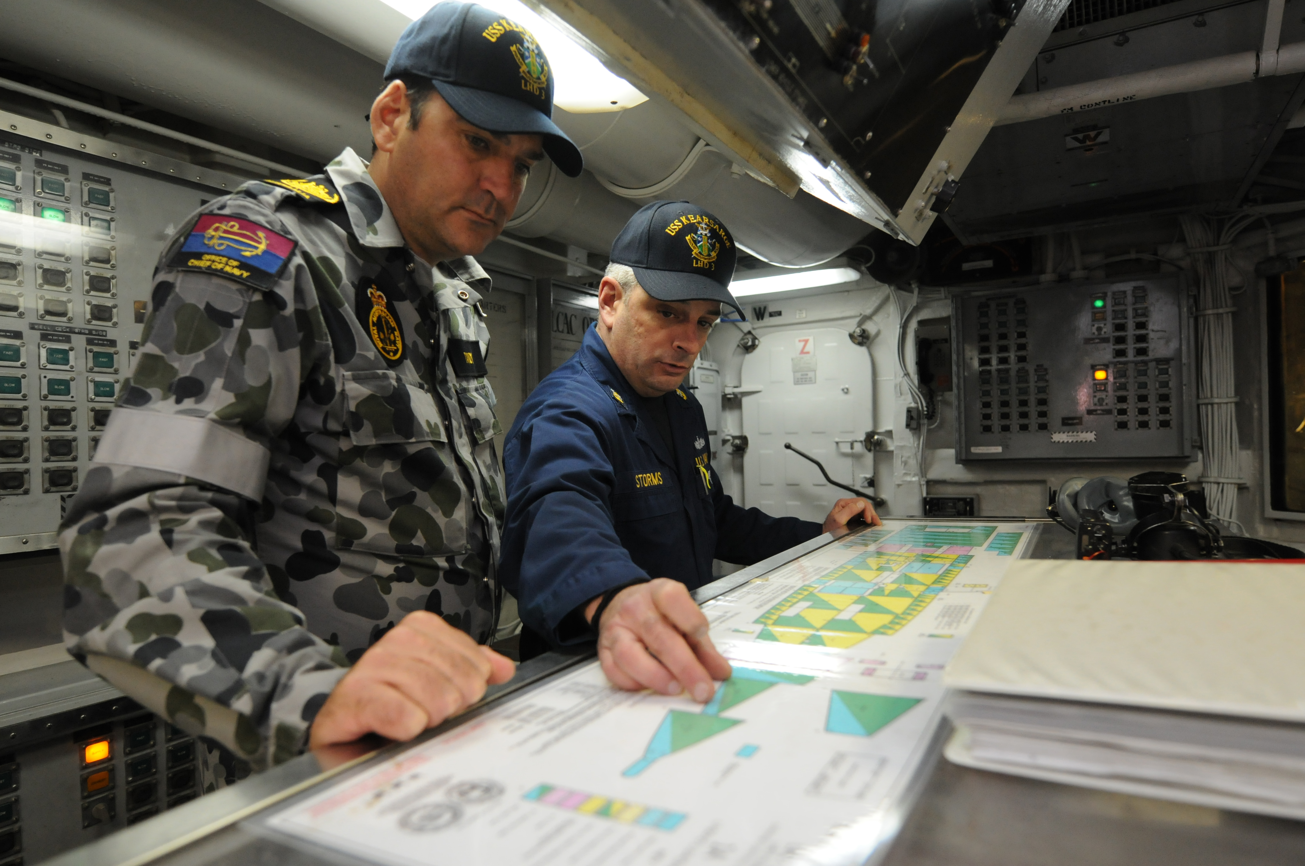 U.S. Navy Hull Maintenance Technician Master Chief Joseph Storms explains the layout of ballast tanks aboard the amphibious assault ship USS Kearsarge (LHD 3) to Royal Australian Navy Warrant Officer of the Navy Mark Tandy Feb. 9, 2010, in Norfolk, Va. Subject matter experts displayed Kearsarge’s capabilities to Tandy, the most senior enlisted leader of the Royal Australian Navy. (U.S. Navy photo by Mass Communication Specialist 2nd Class Mike Lenart/Released)